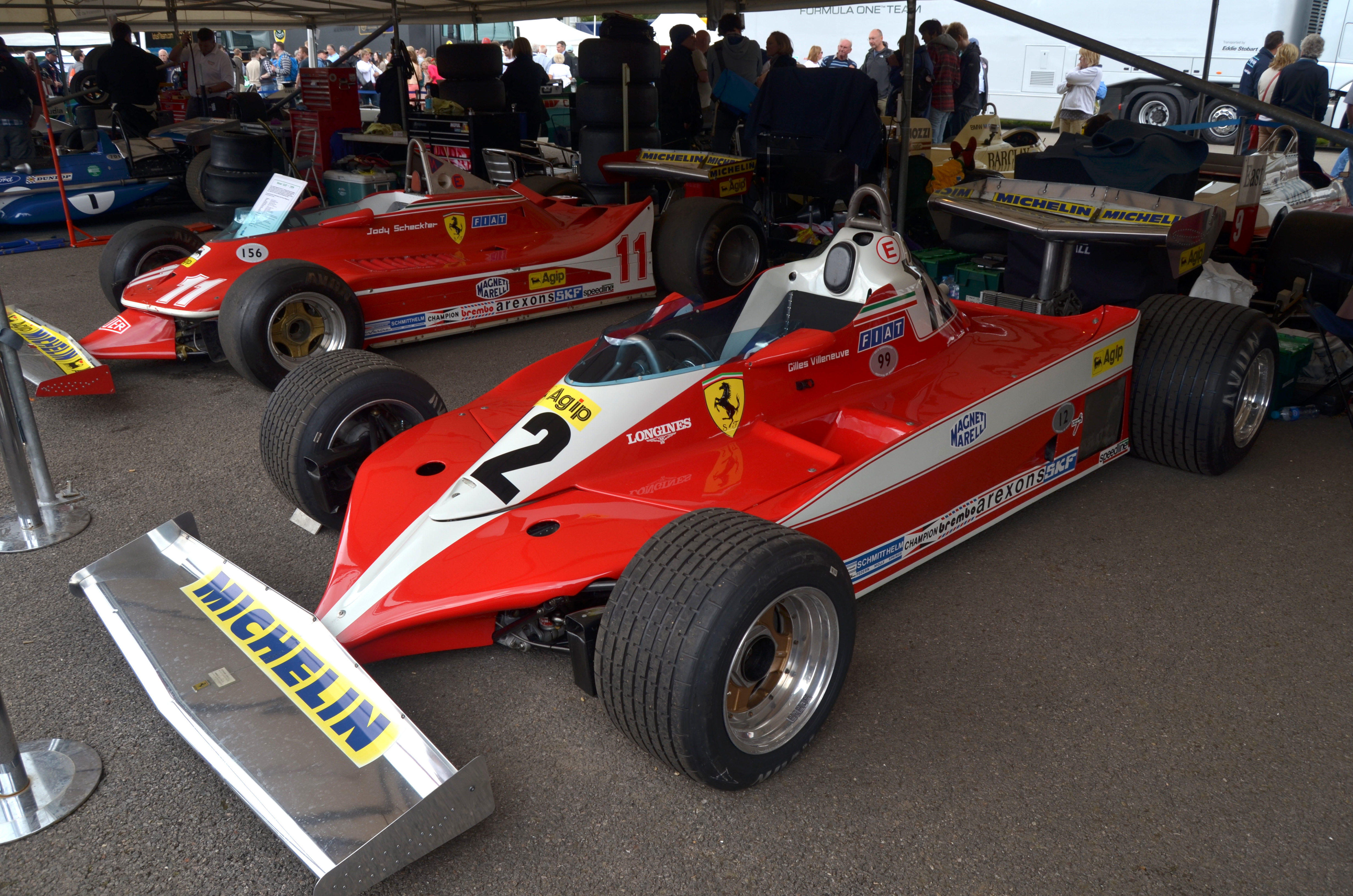 Gilles Villeneuve's 1978 Ferrari 312T3 at the 2012 Goodwood Festival of Speed